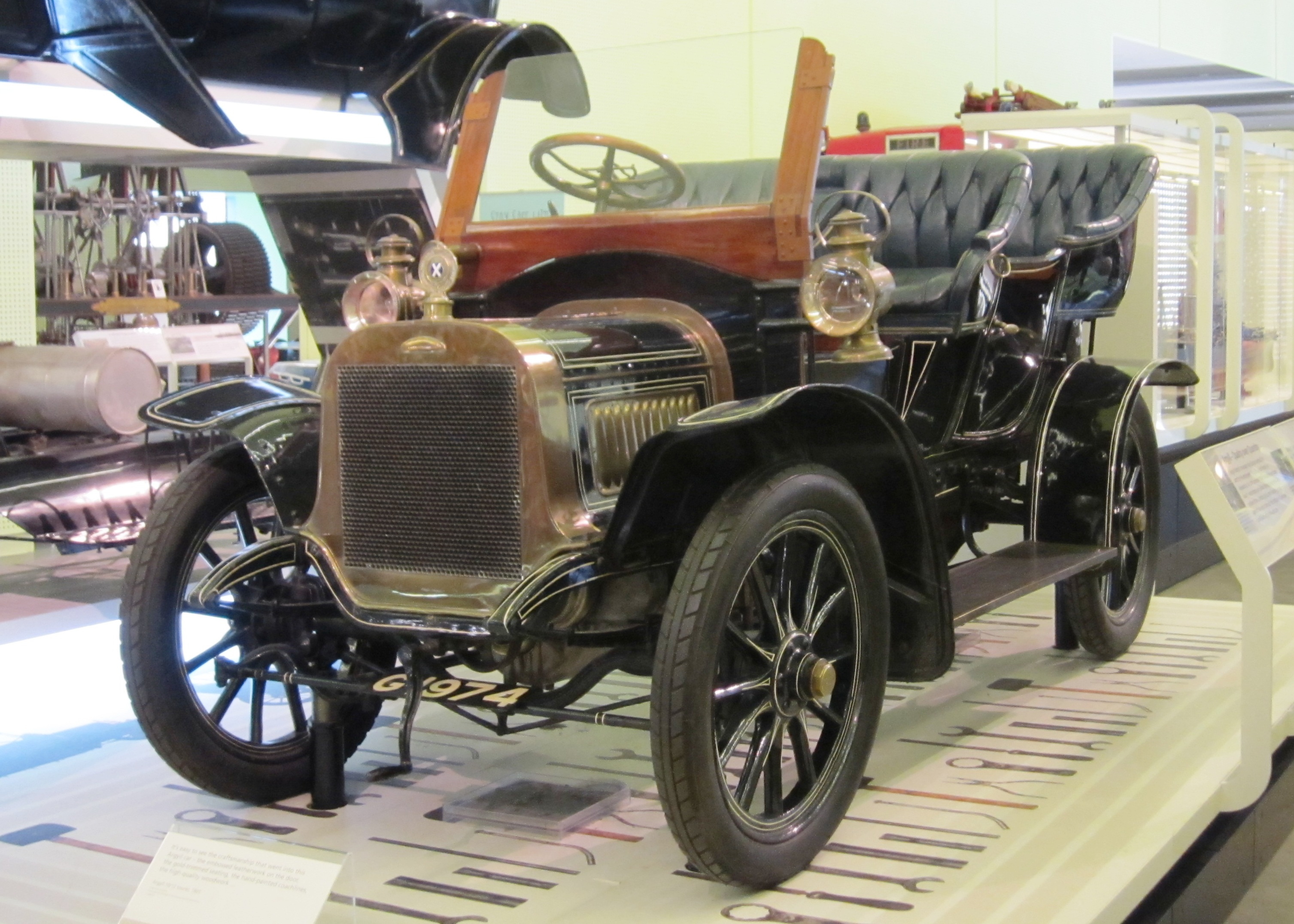 Argyll 10/12 Tourer (1907)